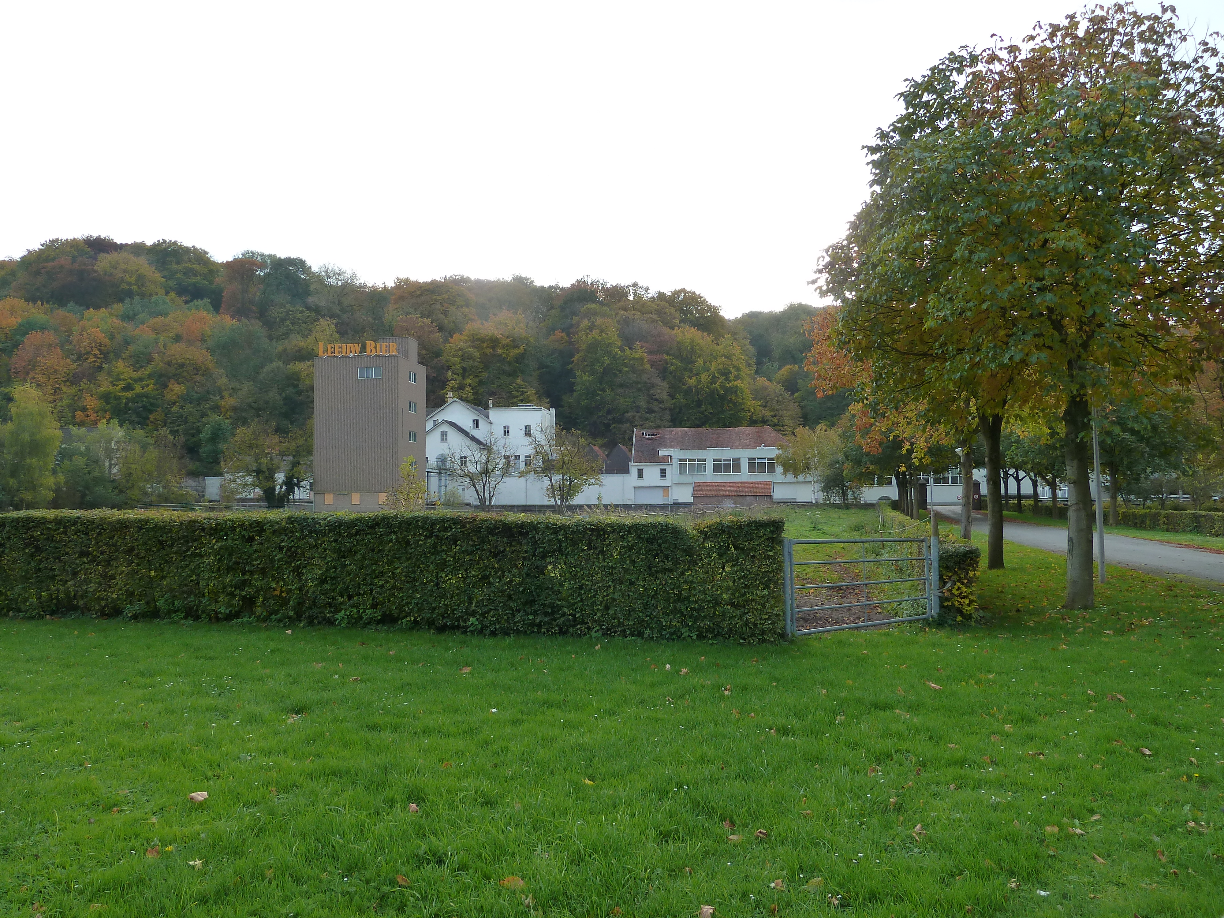 Beerbrewery Leeuw, Valkenburg, Limburg, the Netherlands